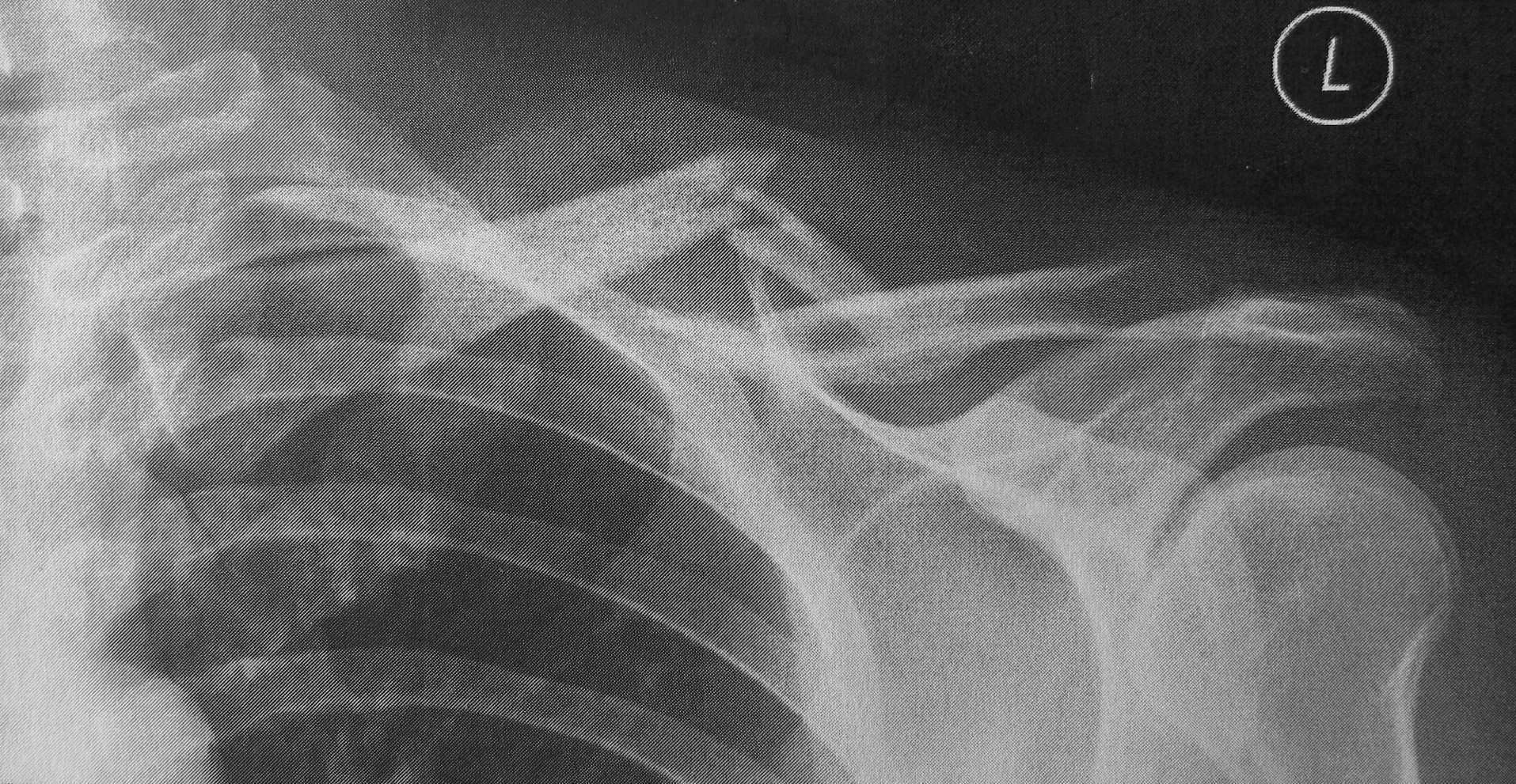 Dislocated broken clavicula, X-ray photography